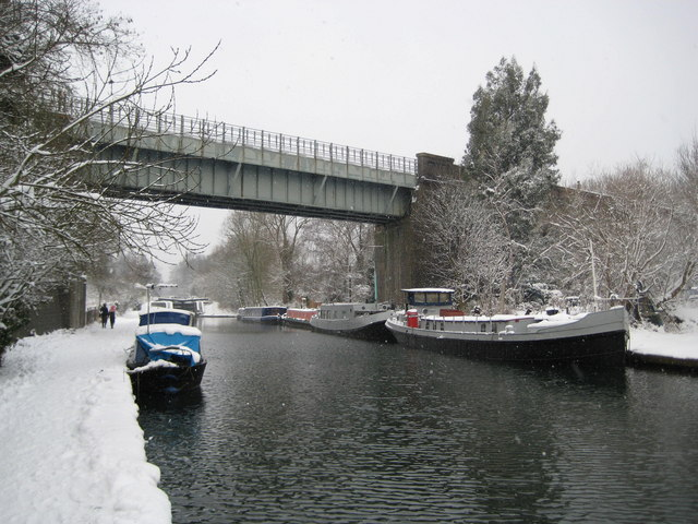 Grand Union Canal: Metropolitan Line viaduct Taken on the day when about 13 centimetres of snow fell in Watford, this viaduct carries London Underground's Metropolitan Line railway across the canal towards its Watford terminus. The canal was built as the Grand Junction Canal in the 1790s. The railway is a much later addition, the line opening in 1925.